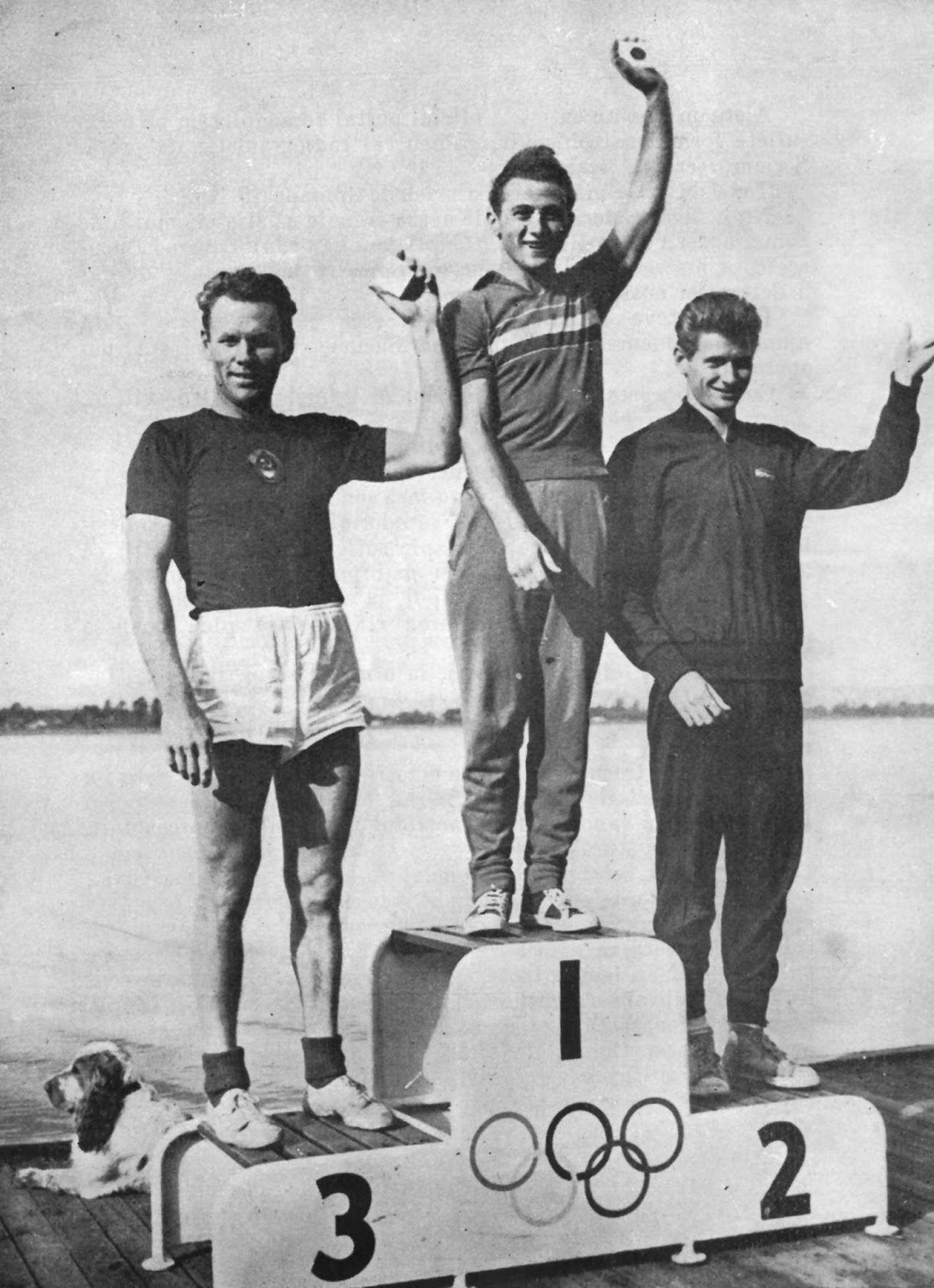 Sprint canoe podium at the 1956 Olympics